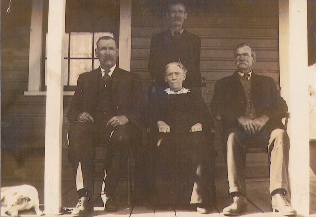 The Page Family, taken before 1918 on the Page ranch in Clarksville, El Dorado Co. Ca., Lewis Johnson Page(rear), left to right- Samuel M. Page, Clarissa Jane(Page)Coffman, John Robert Page